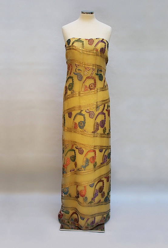 Strapless evening gown by George Stavropoulos, American, 1960s. Yellow chiffon with gold and coloured brocaded design.